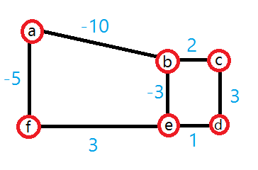 A graph containing negative cycles